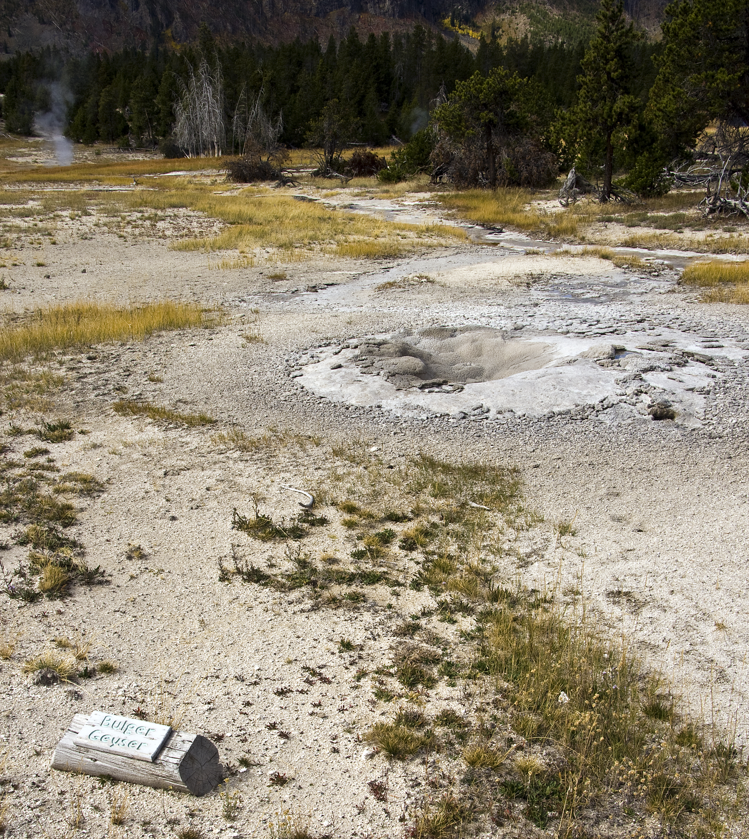 Bulger Geyser cone, Upper Geyser Basin, Yellowstone National Park, Wyoming, USA